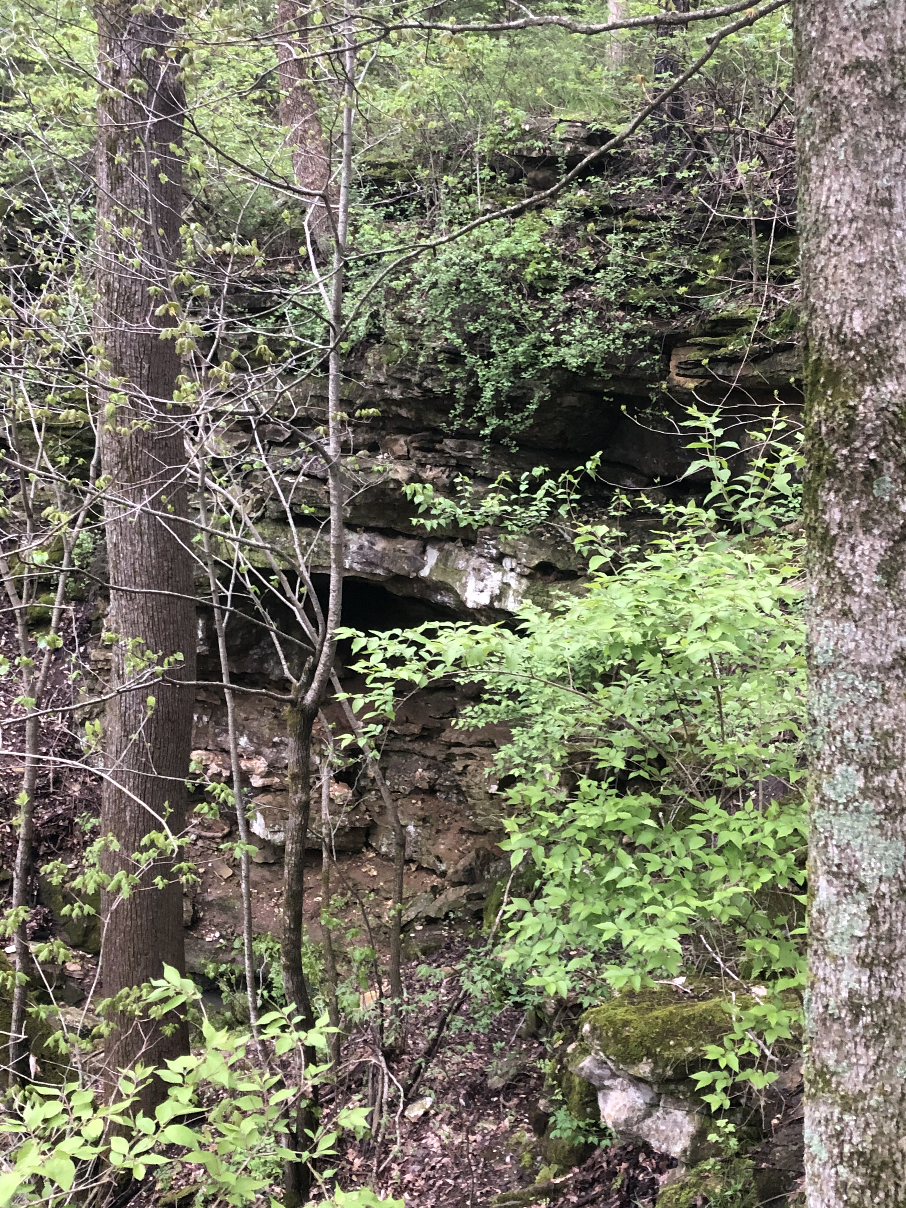 Elbow Cave in the Gans Creek Conservation Area. Columbia, Missouri in Spring 2020.